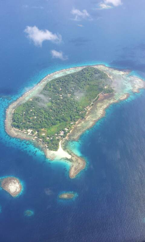 Pohnpei of Micronesia